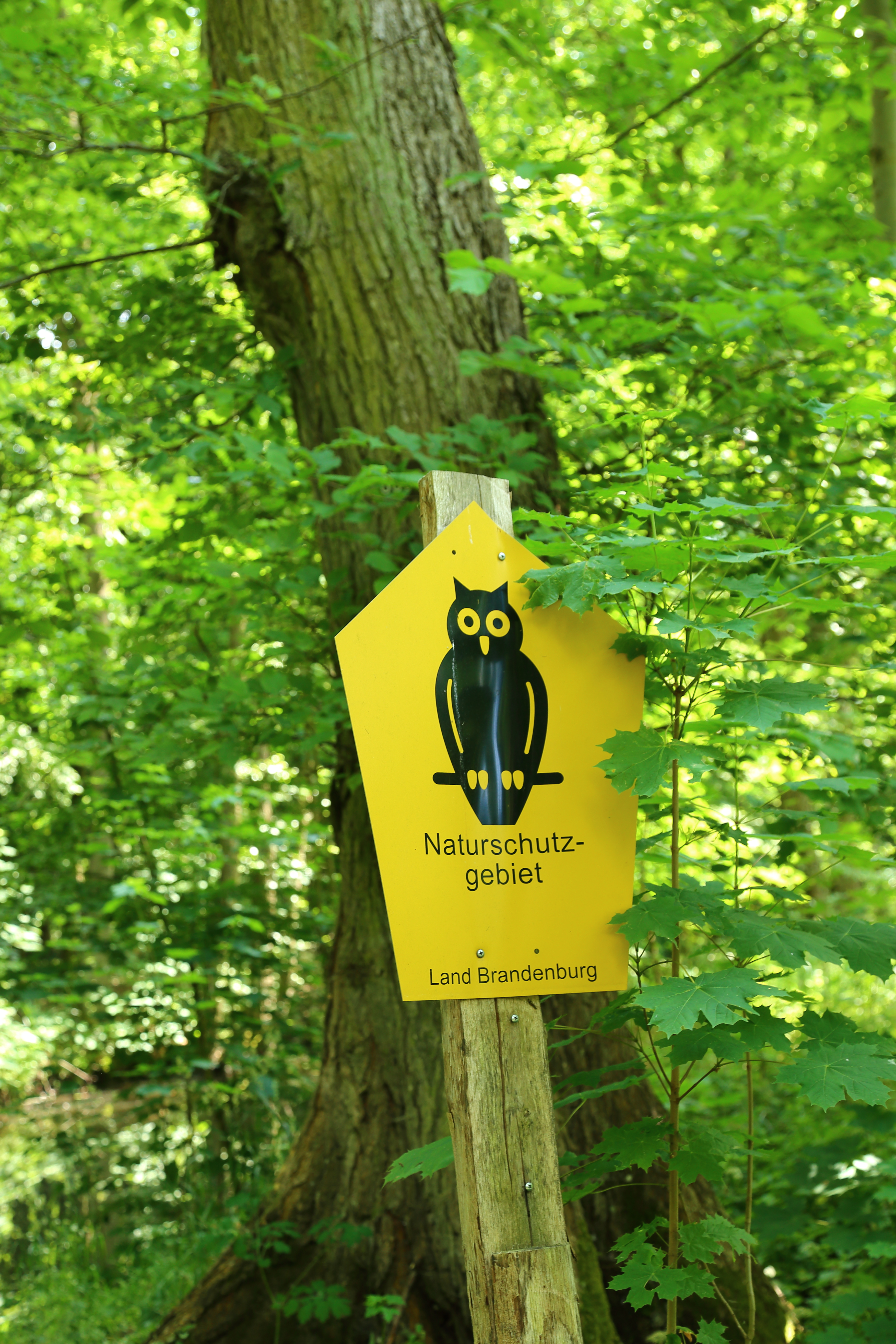 Sign at the nature reserve Prierow near Golßen (Prierow bei Golßen) near Golßen, Landkreis Dahme-Spreewald, Brandenburg, Germany.